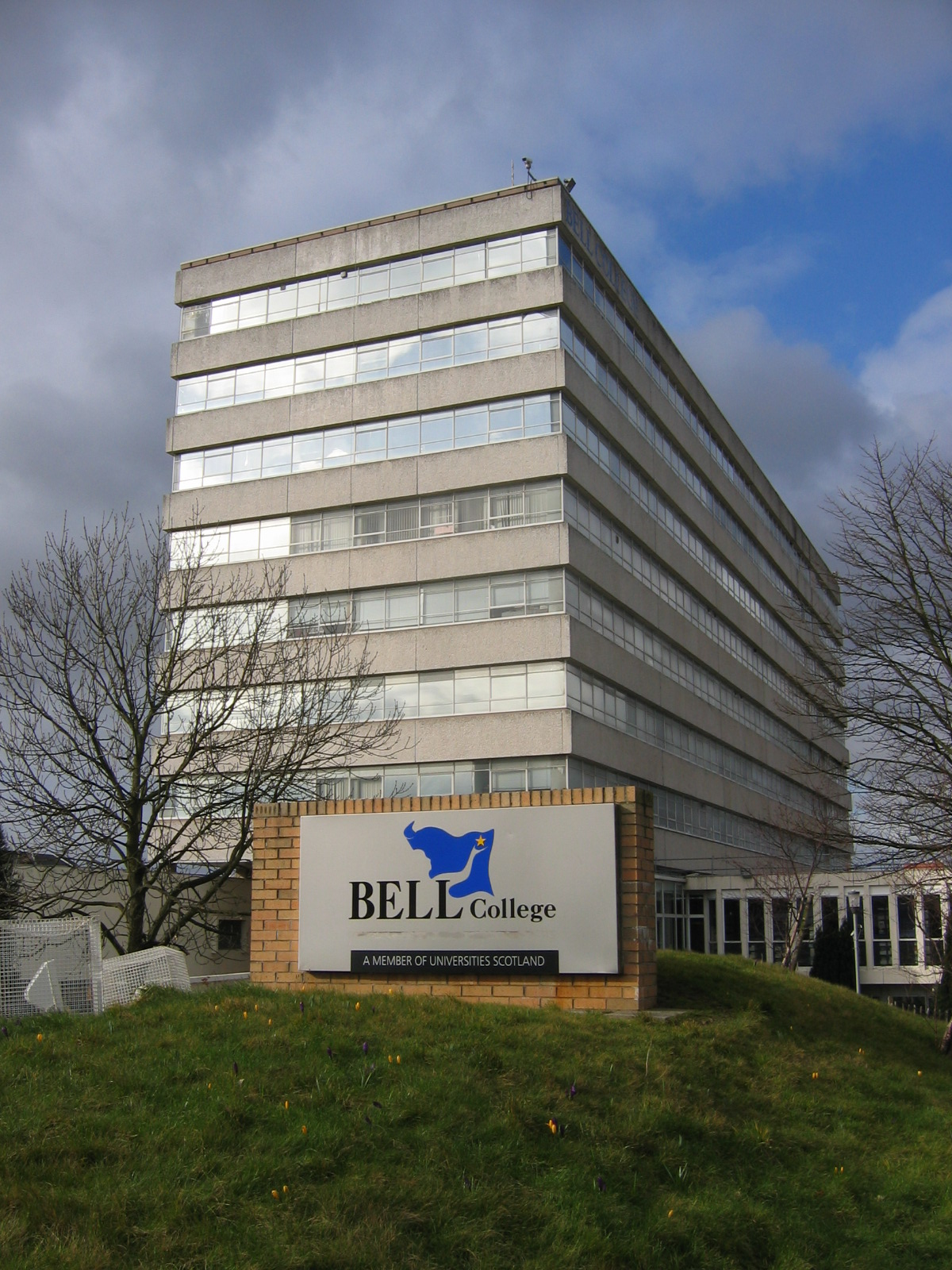 Main building of Bell College, in Hamilton, Scotland. Taken by Supergolden.